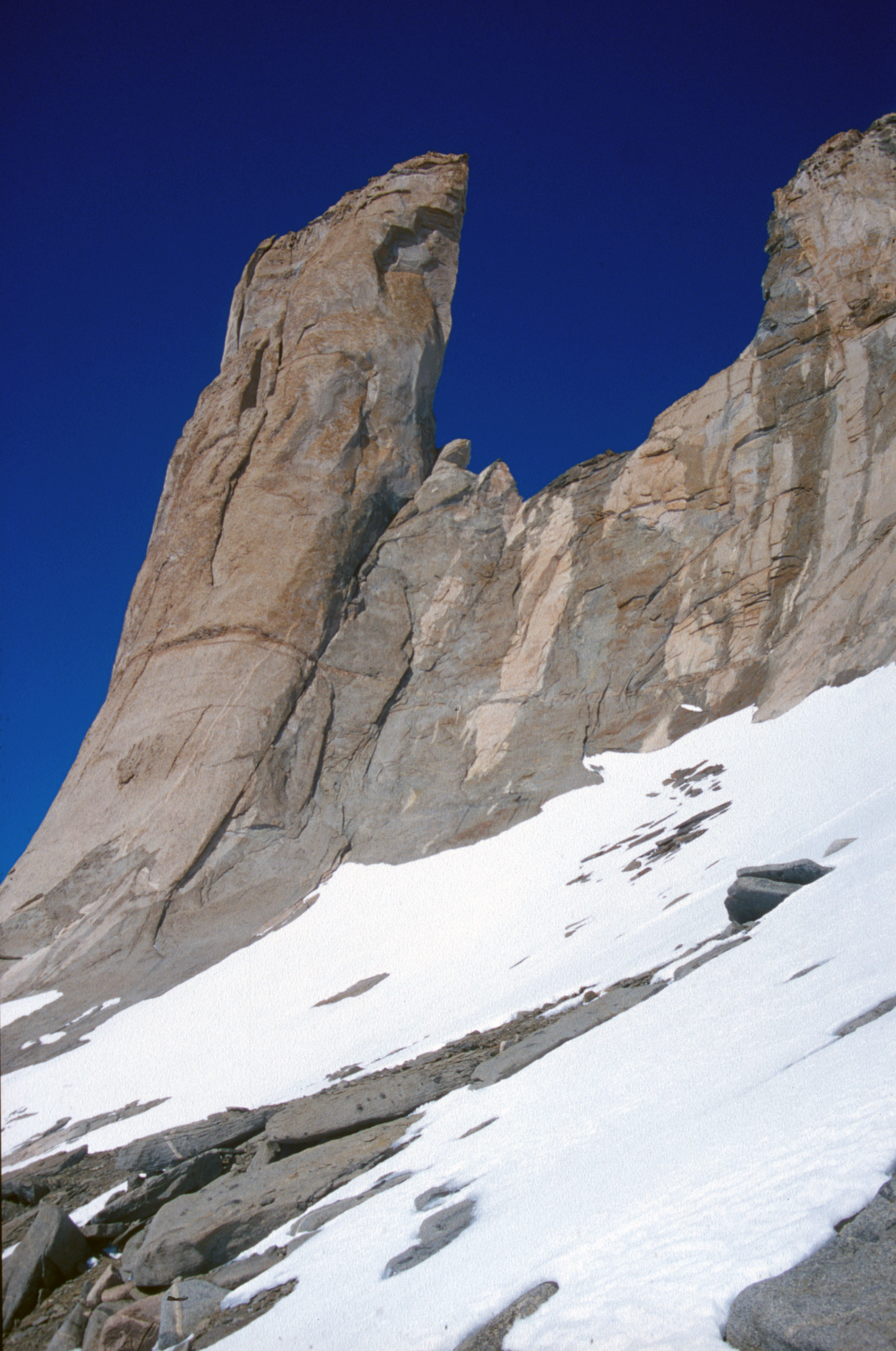 The granite peak of Spøta in Dronning Maud Land